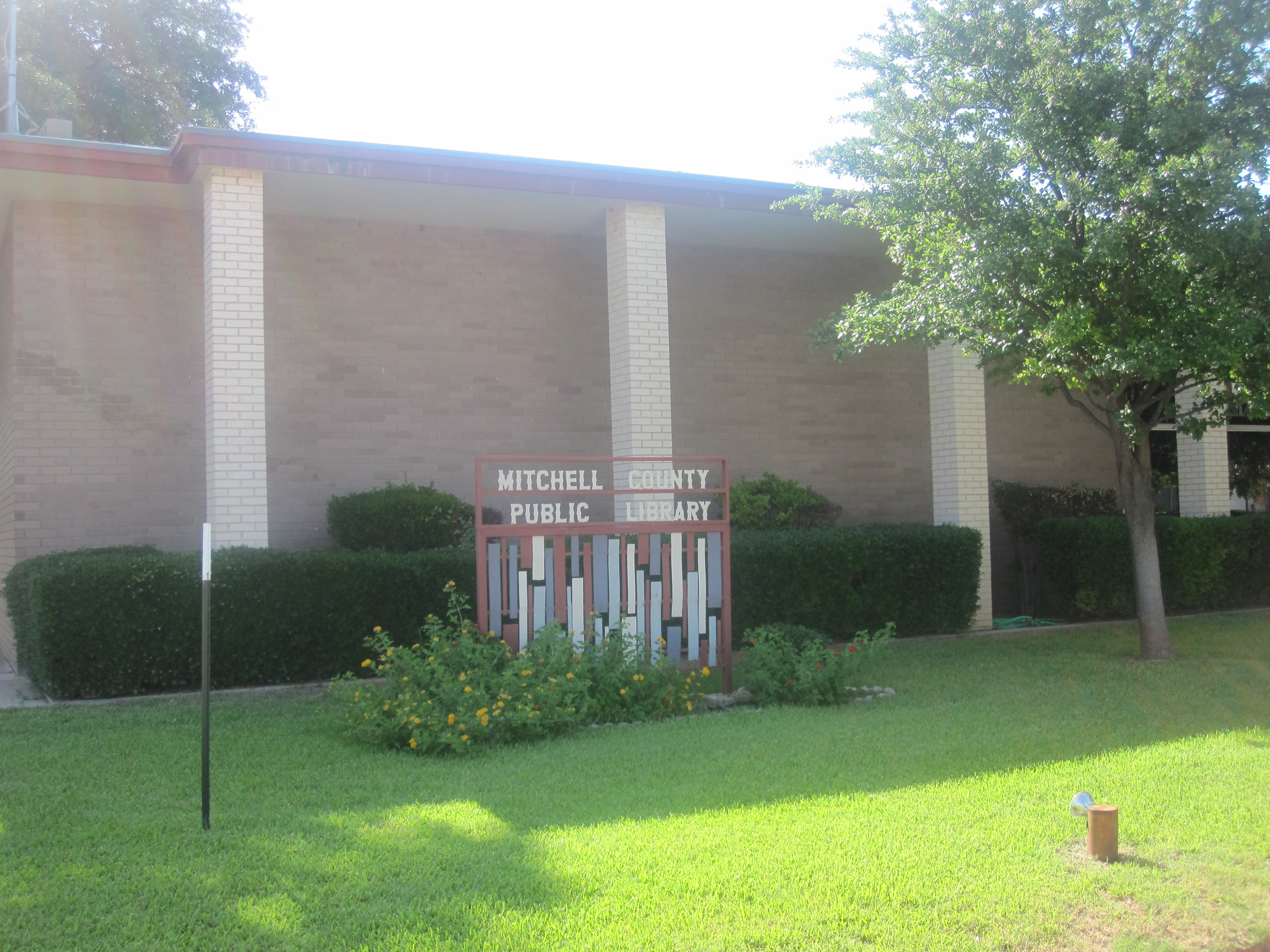 I took photo with Canon camera in CO City, TX.